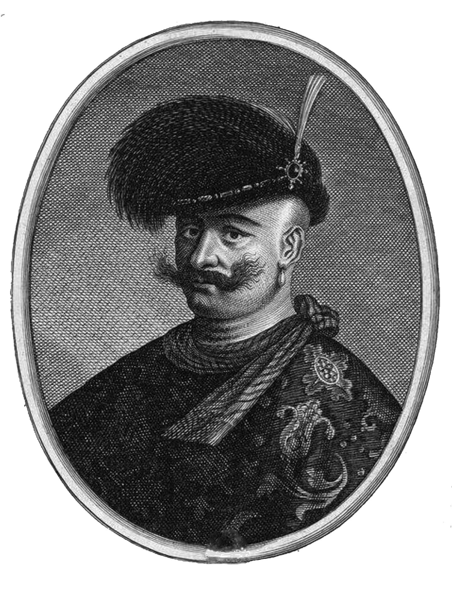 Abbas I of Persia (Shāh ‘Abbās the Great)